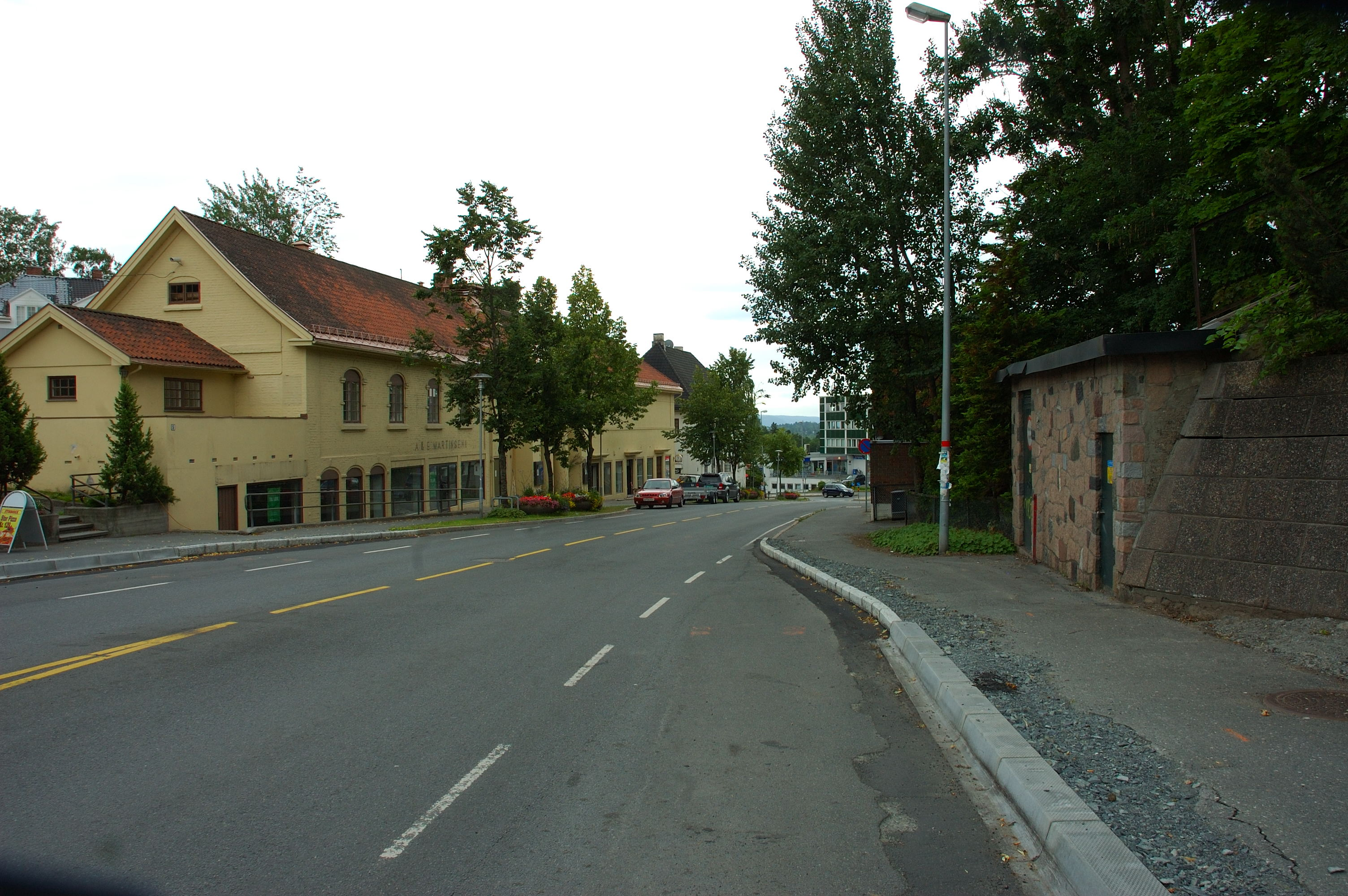 Fv609 Gamle Ringeriksvei, Upper Stabekk